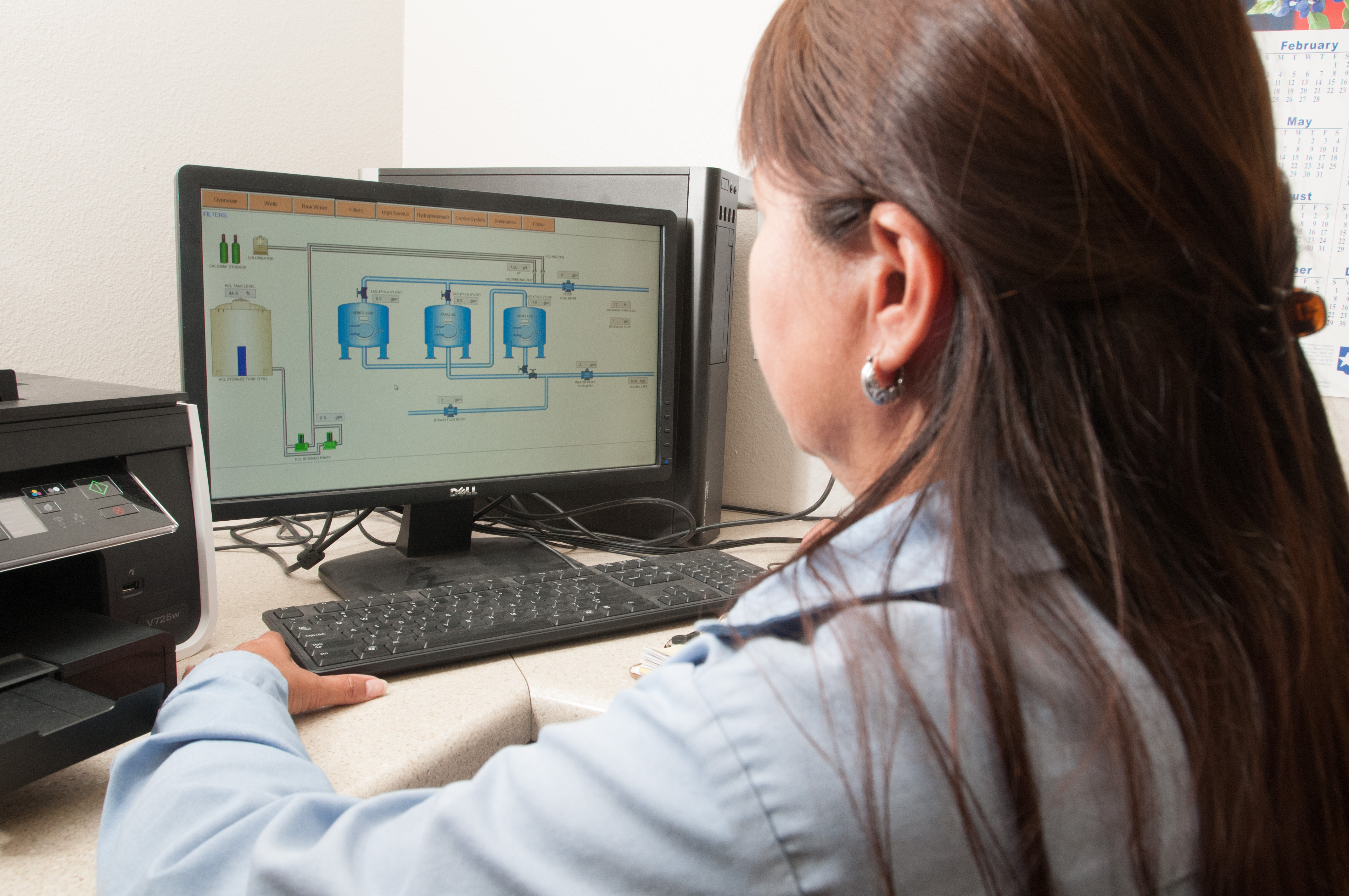 Freer Water Control and Improvement District (FWCID) Manager Diana Adame checks the status of the Arsenic Removal System Absorber vessels by using a graphical computer interface in the operations office, on Tuesday June 18, 2013, in Freer Texas.